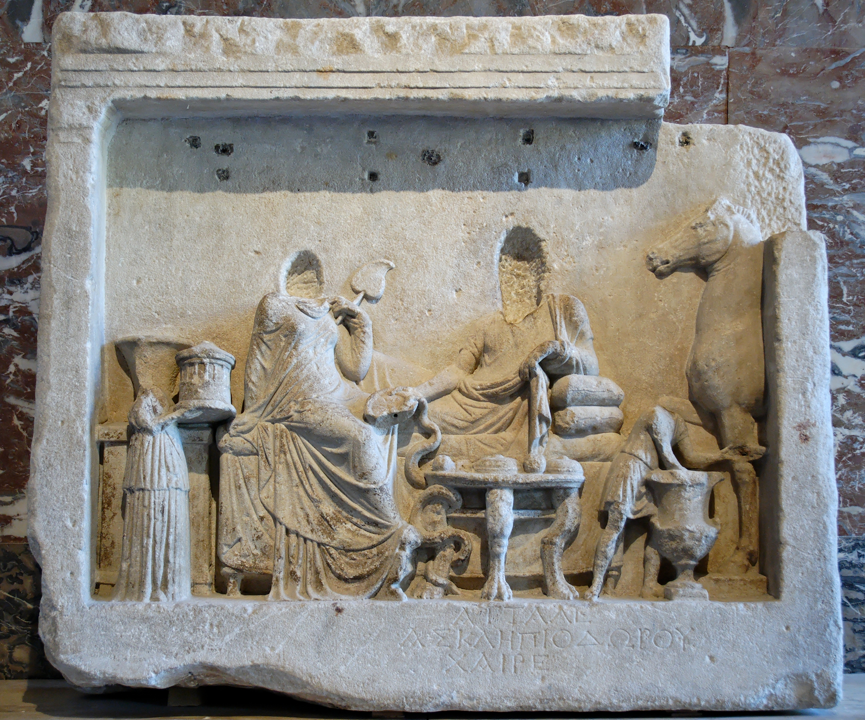 Funerary banquet: from left to right, a servant holding a round object, perhaps a model of the Arsinoeion in Samothrace, a seated woman, a half-reclining man holding a phiale in which a snake is drinking, a boy cupbearer. Naiskos-style funerary stele with high-relief decoration ; epitaph inscribed on the plint: “Attalos, son of Asklepiodoros, greetings!”. Marble, 2nd quarter of the 2nd century BC. From Cyzicus.